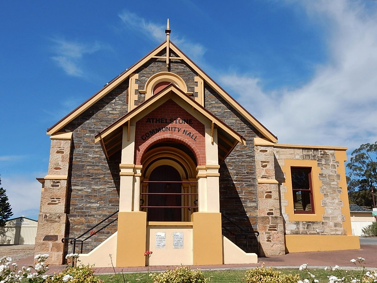 Athelstone Community Hall (without wires)